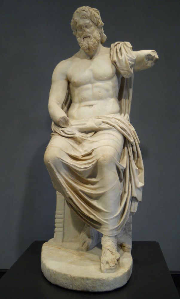 King of the Gods, Zeus, at the Getty Villa. Roman, Italy, A.D. 1 - 100.